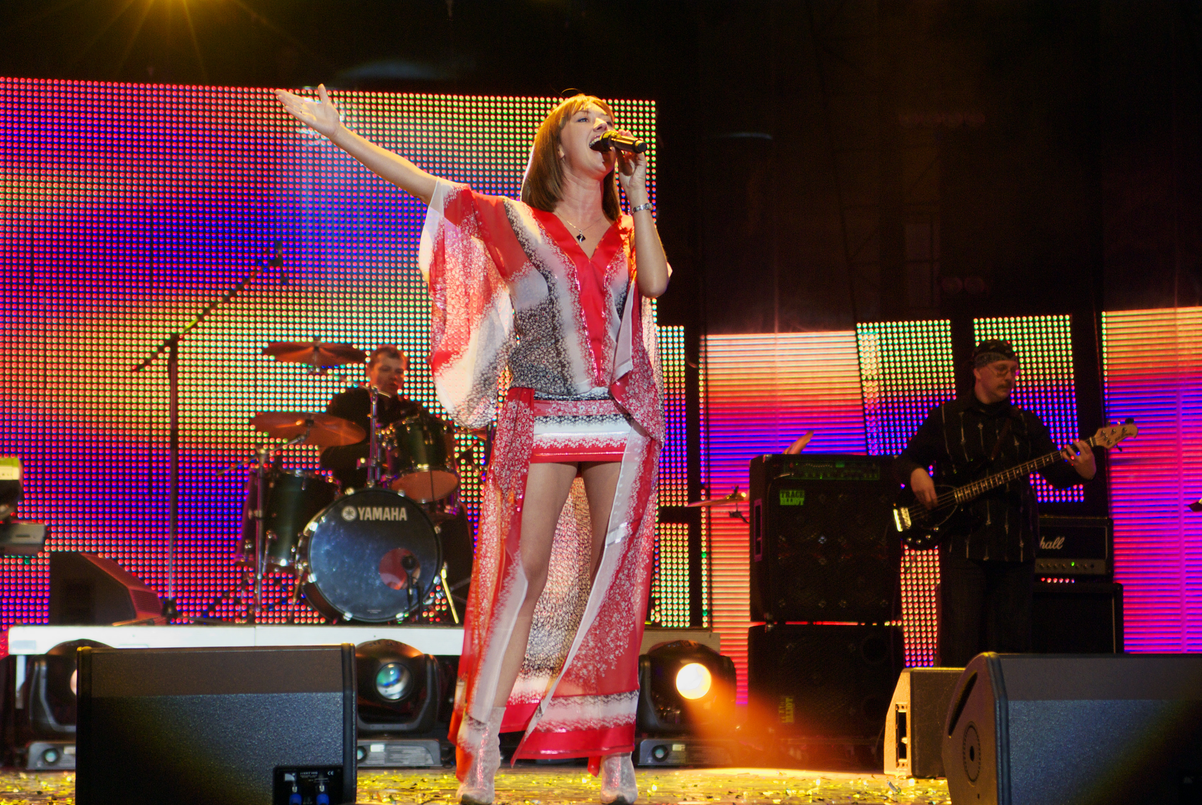 Iryna Darafiejeva